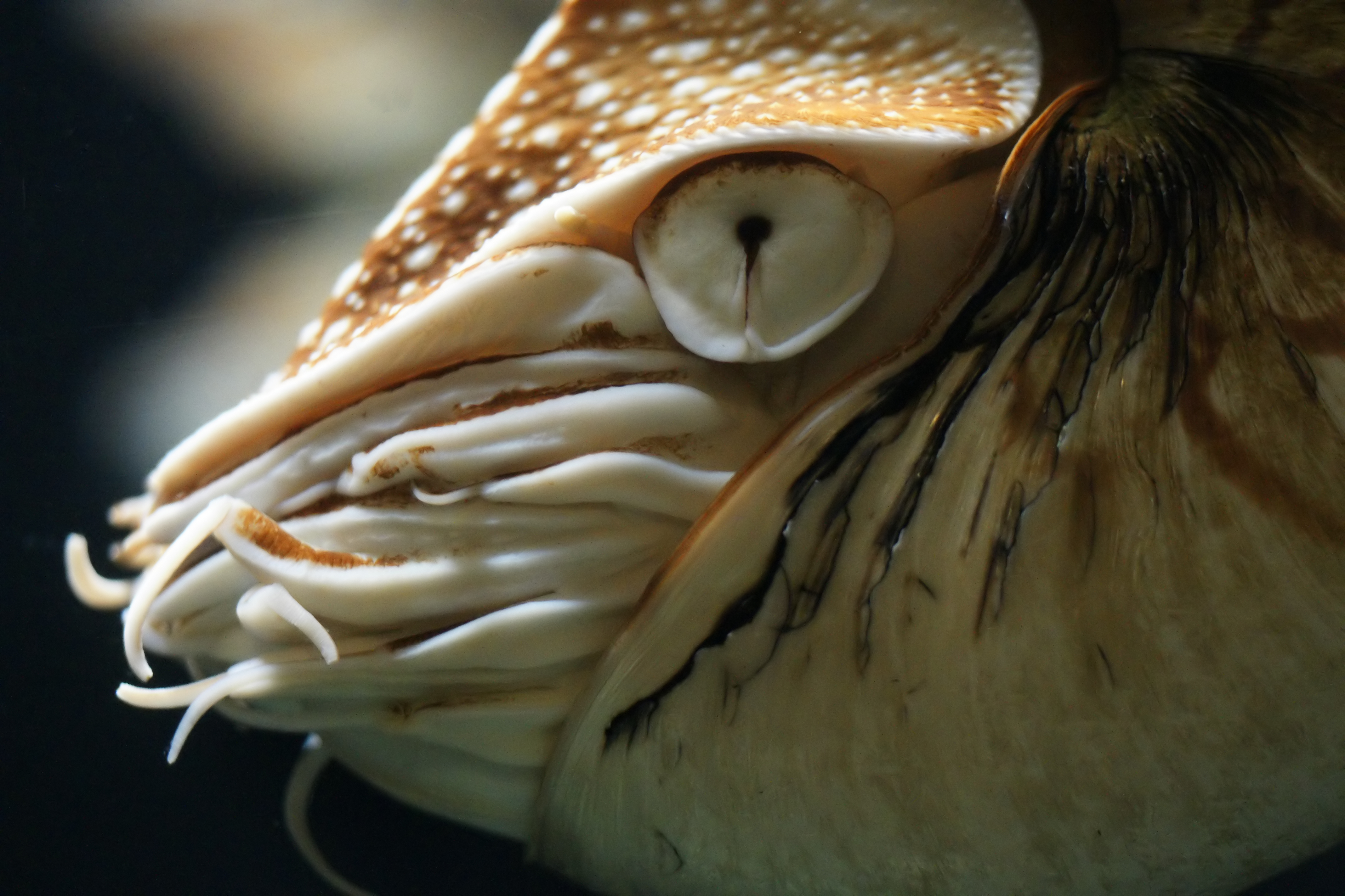 Chambered Nautilus, at Pairi Daiza, Brugelette, Belgium